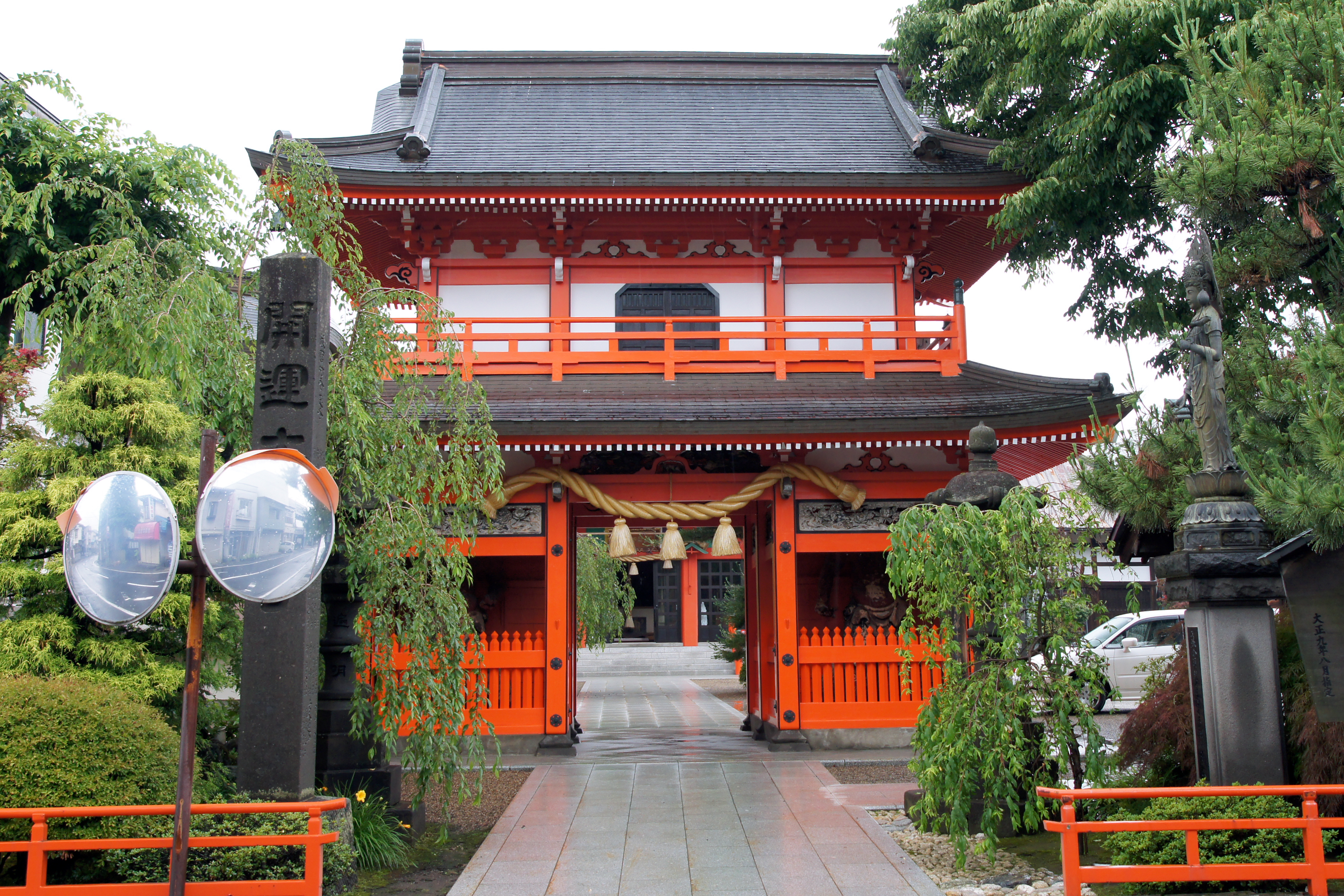 Daien-ji in Owani, Aomori prefecture, Japan.